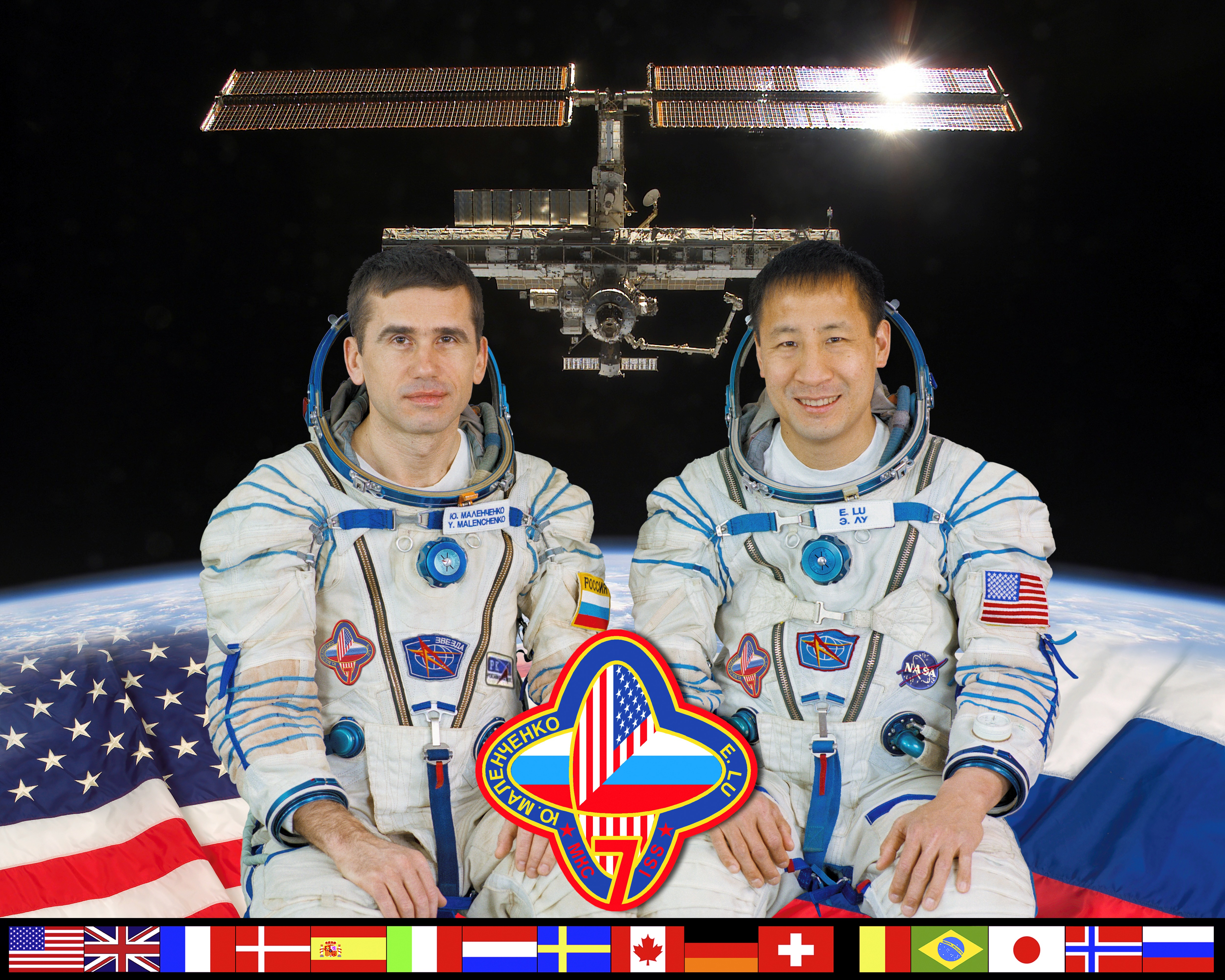 Expedition Seven Commander Yuri I. Malenchenko (left), and NASA ISS Science Officer and Flight Engineer Edward T. Lu pose for their crew portrait while in training at the Gagarin Cosmonaut Training Center in Star City, Russia for their scheduled launch in a Soyuz TMA-2 spacecraft later this year. Malenchenko represents Rosaviakosmos, the Russian Aviation and Space Agency.